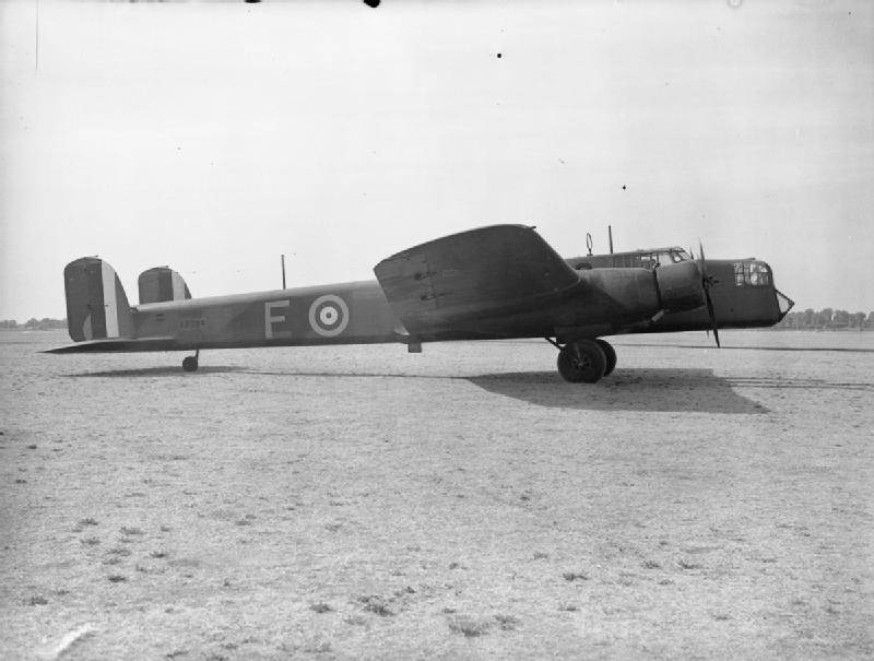 Aircraft of the Royal Air Force 1939-1945- Armstrong Whitworth Aw.38 Whitley. Whitley Mark III, K8994 ‘E’, of No. 10 Operational Training Unit, taxying at Abingdon, Berkshire.